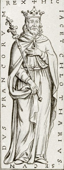 Chlothar II.